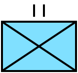 The NATO APP6B symbol for an infantry battalion.